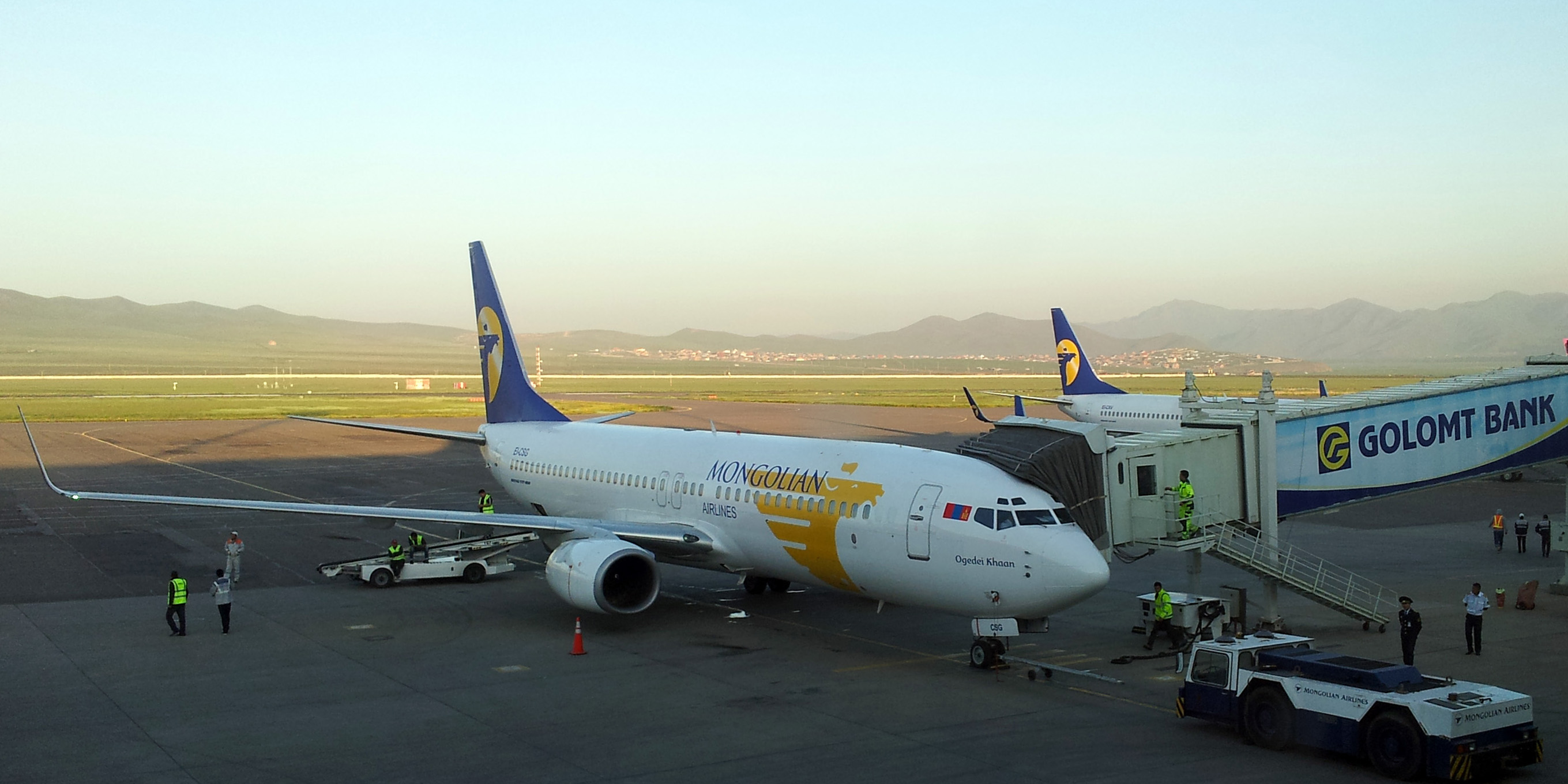 MIAT Mongolian Airlines plane Boeing 737-800 at Chinggis Khaan International Airport Монгол: Чингис хаан олон улсын нисэх буудалд МИАТ ХК онгоц Боинг 737-800